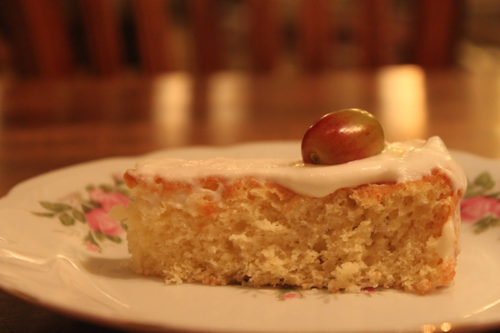 first published: made by me.